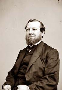 Charles Godfrey Gunther from